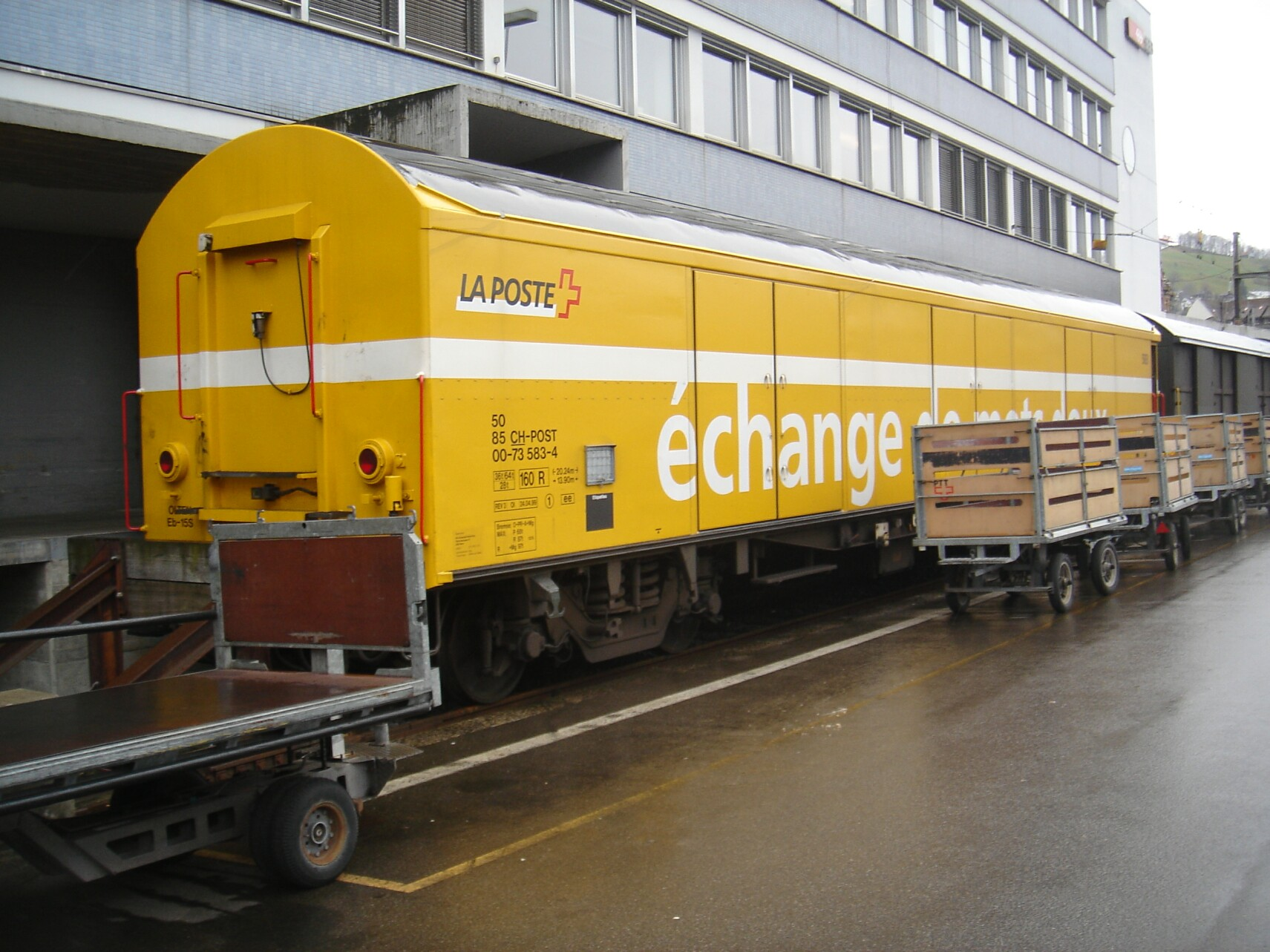 Postal van number 583 in St. Gallen. This vehicle is for use in passenger or fast postal trains with speeds up to 160 km/h